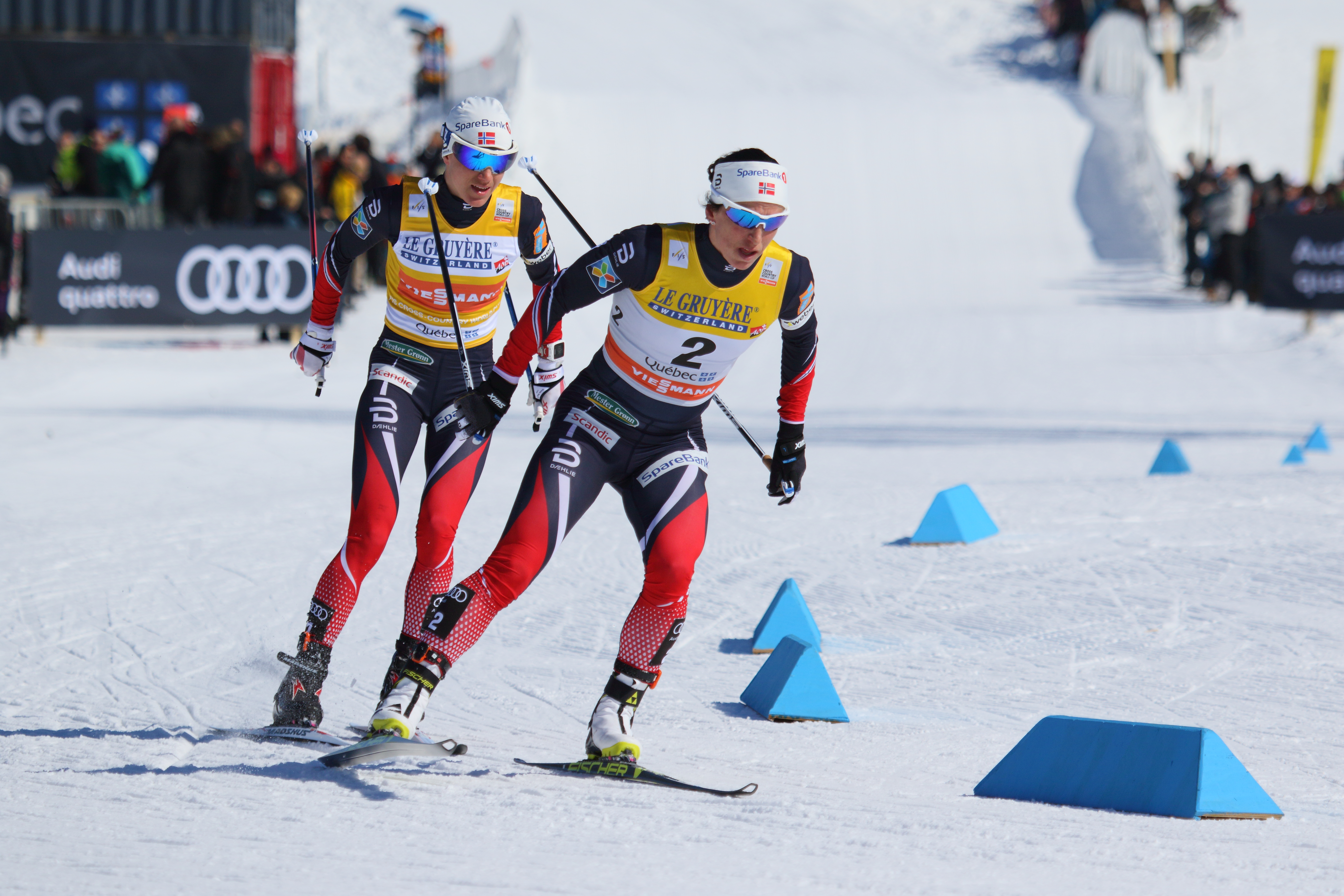 Heidi Weng and Marit Bjørgen, 2017 Ski Tour Canada, Quebec City.